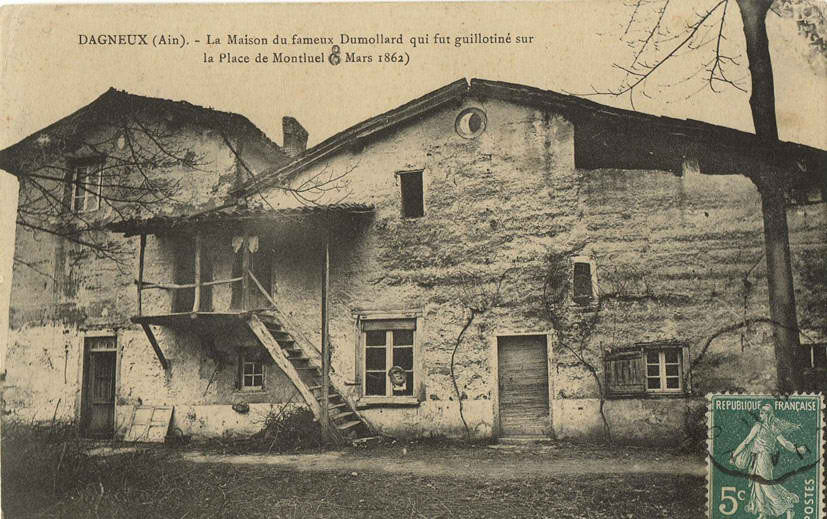 Maison de Martin Dumollard et Marie-Anne Martinet à Dagneux, lors de son arrestation. Elle est située Rue du Mollard.